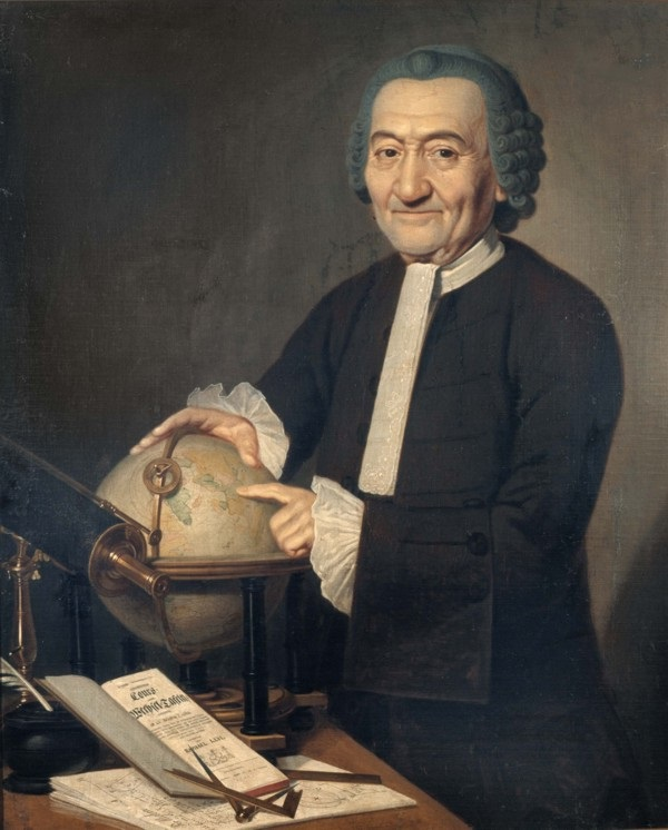 Raphael Levi Hannover, painted by anonymous. The portrait is kept in the Historical Museum of Hannover.